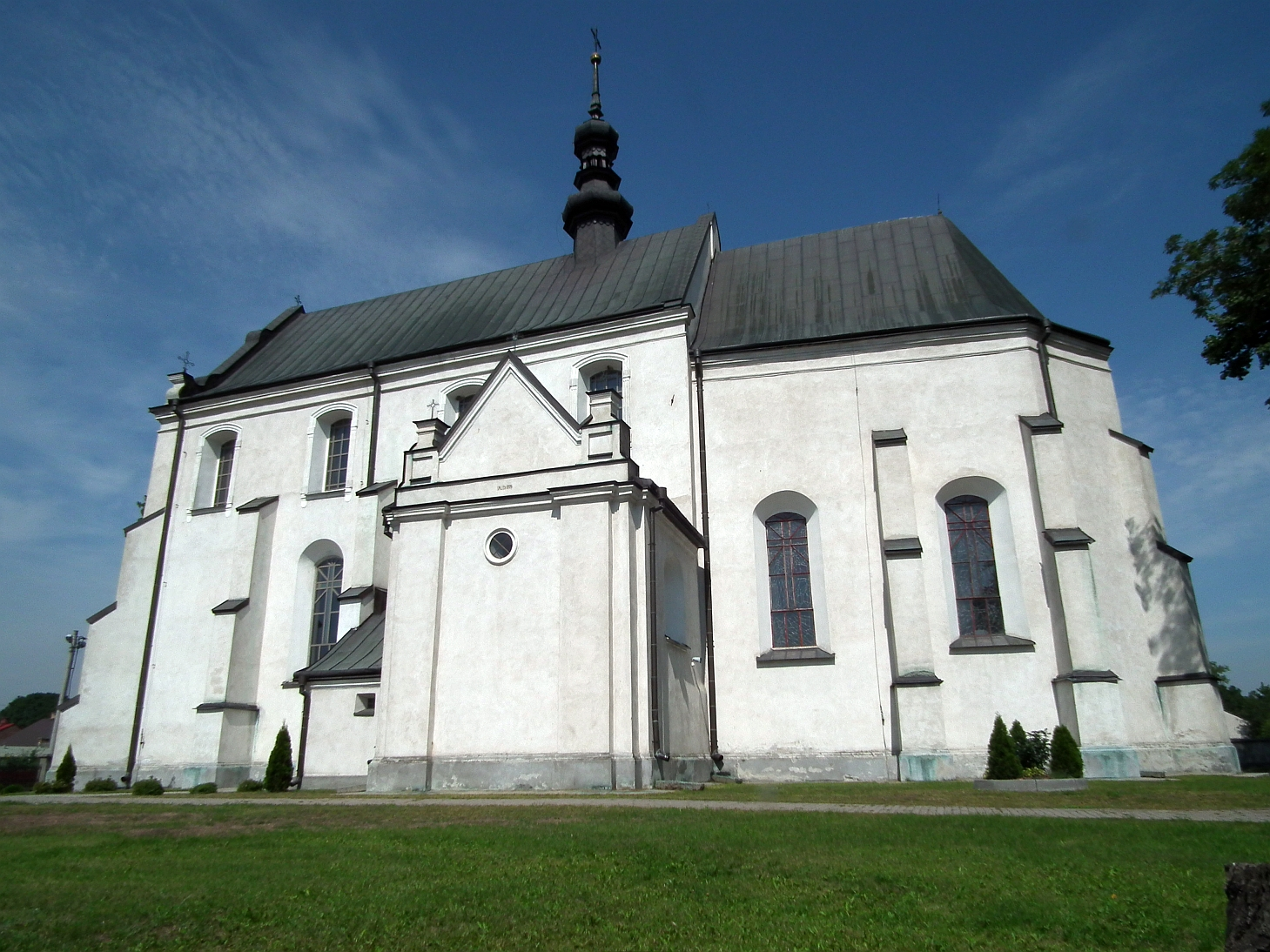 Holy Trinity church in Zaklików, Poland.